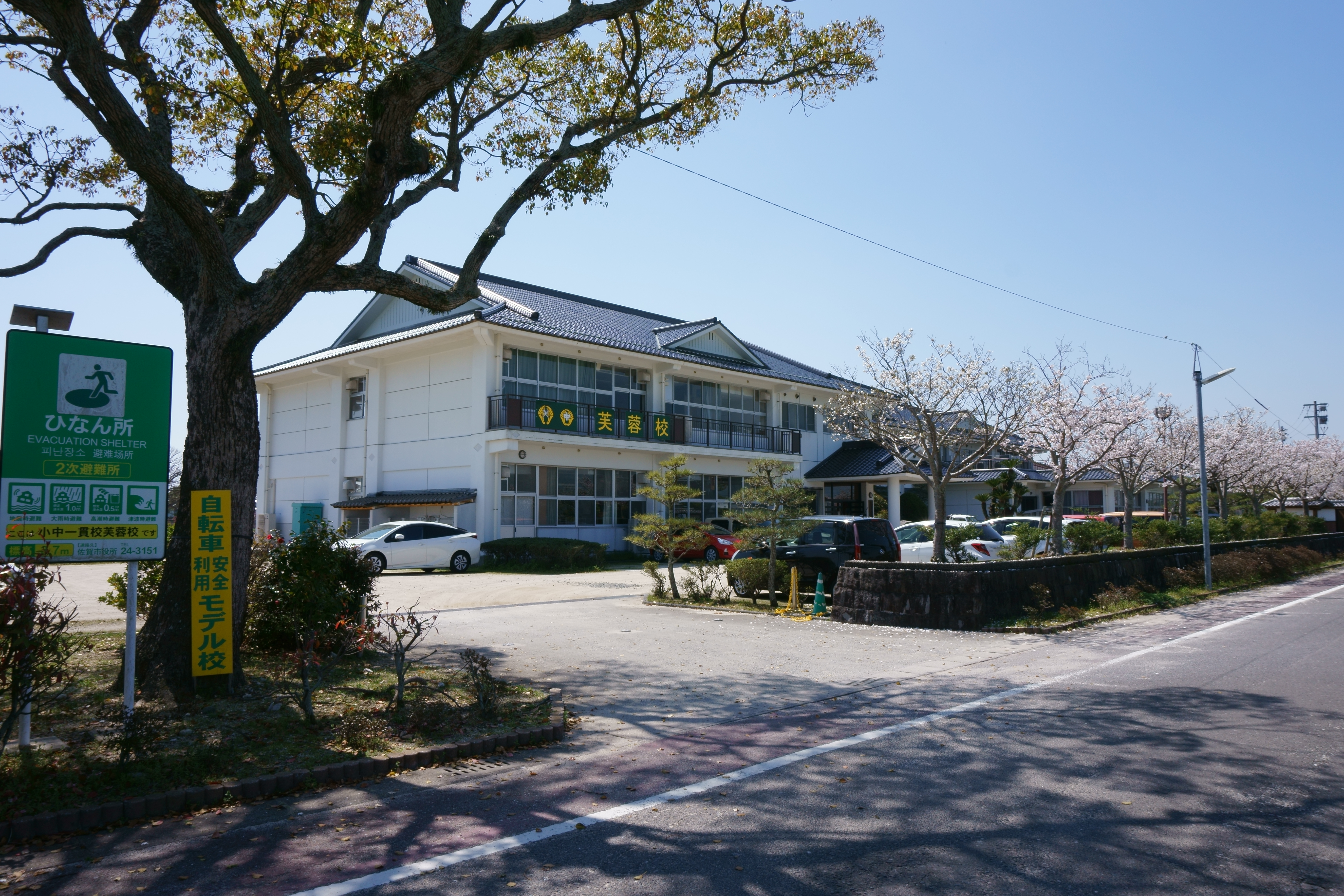 Saga Municipal Fuyo Combined Elementary and Junior High School in Hasuikemachi Komatsu, Saga city, Saga prefecture.